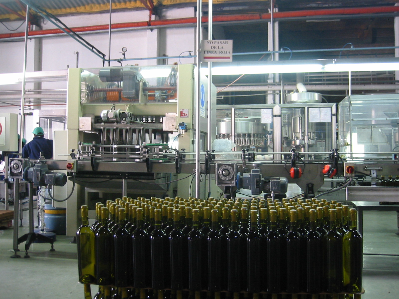 A commercial bottling line in Argentina